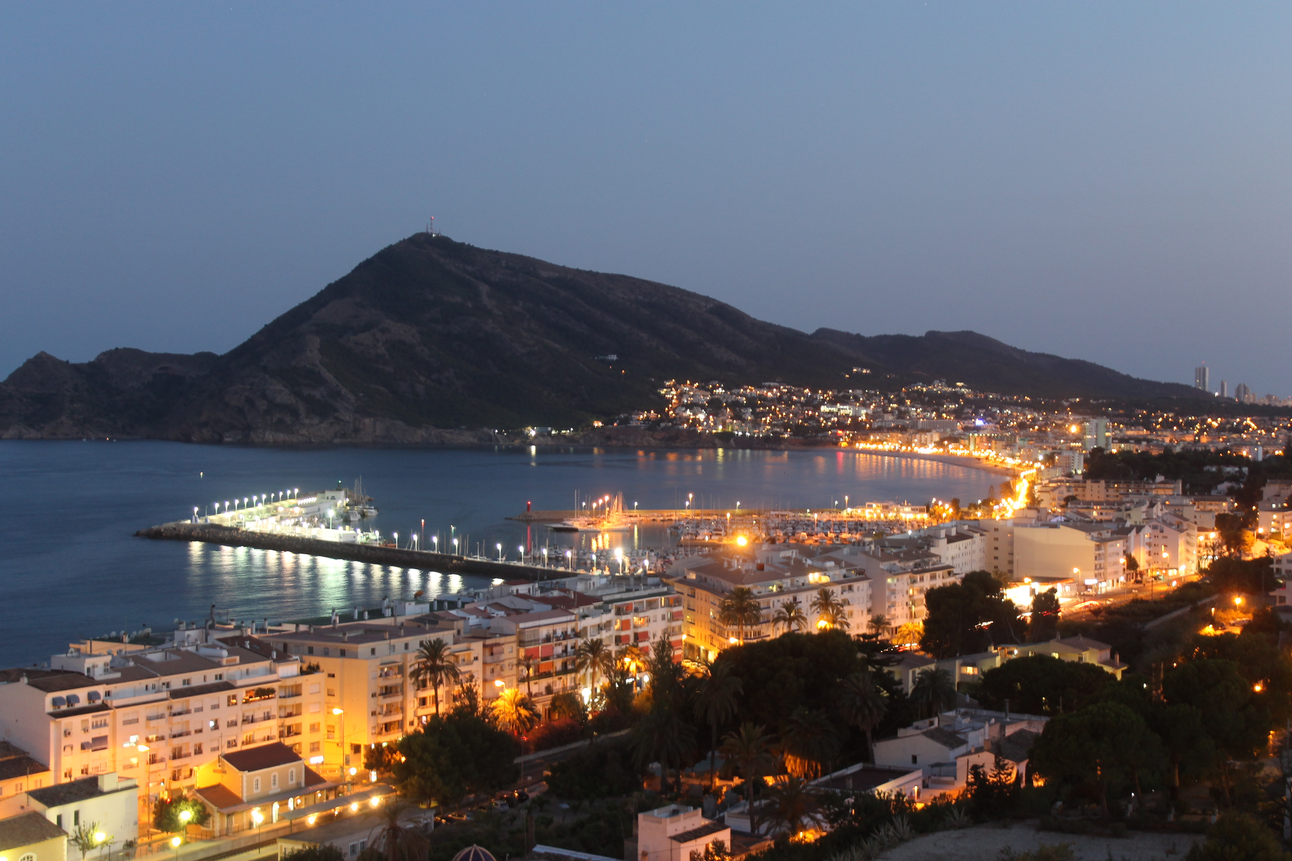 Altea's coastline, in Alicante, Spain